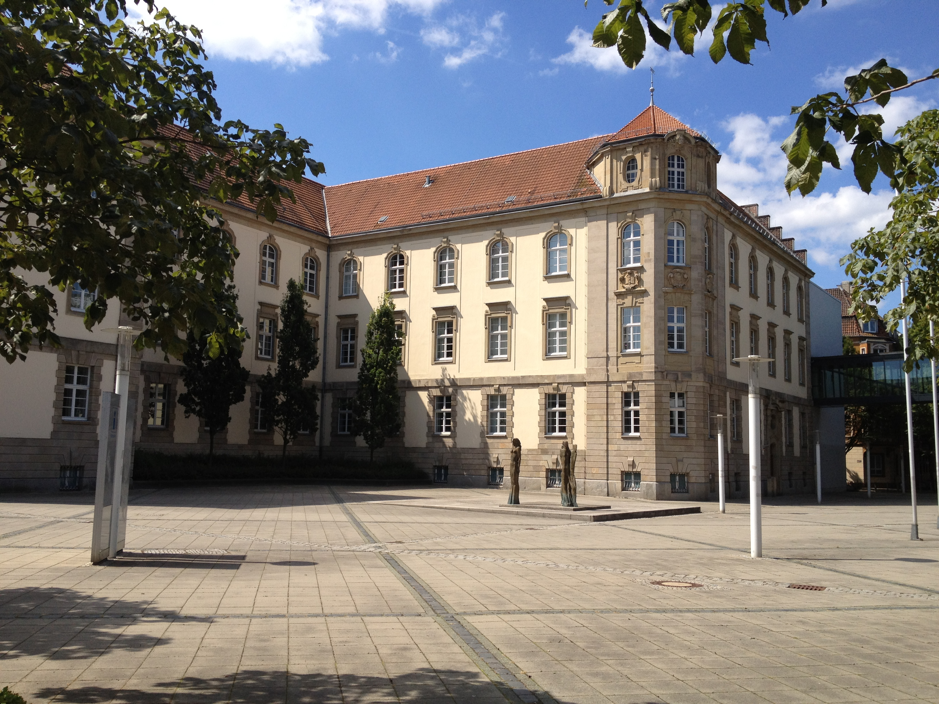 court of first instance Dortmund